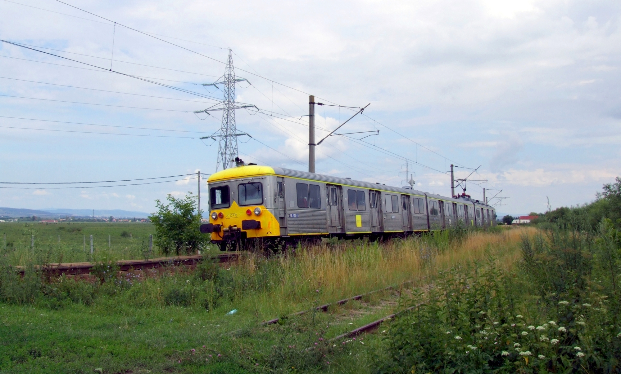 Căile Ferate Române - personal train in Prejmer (Tartlau)